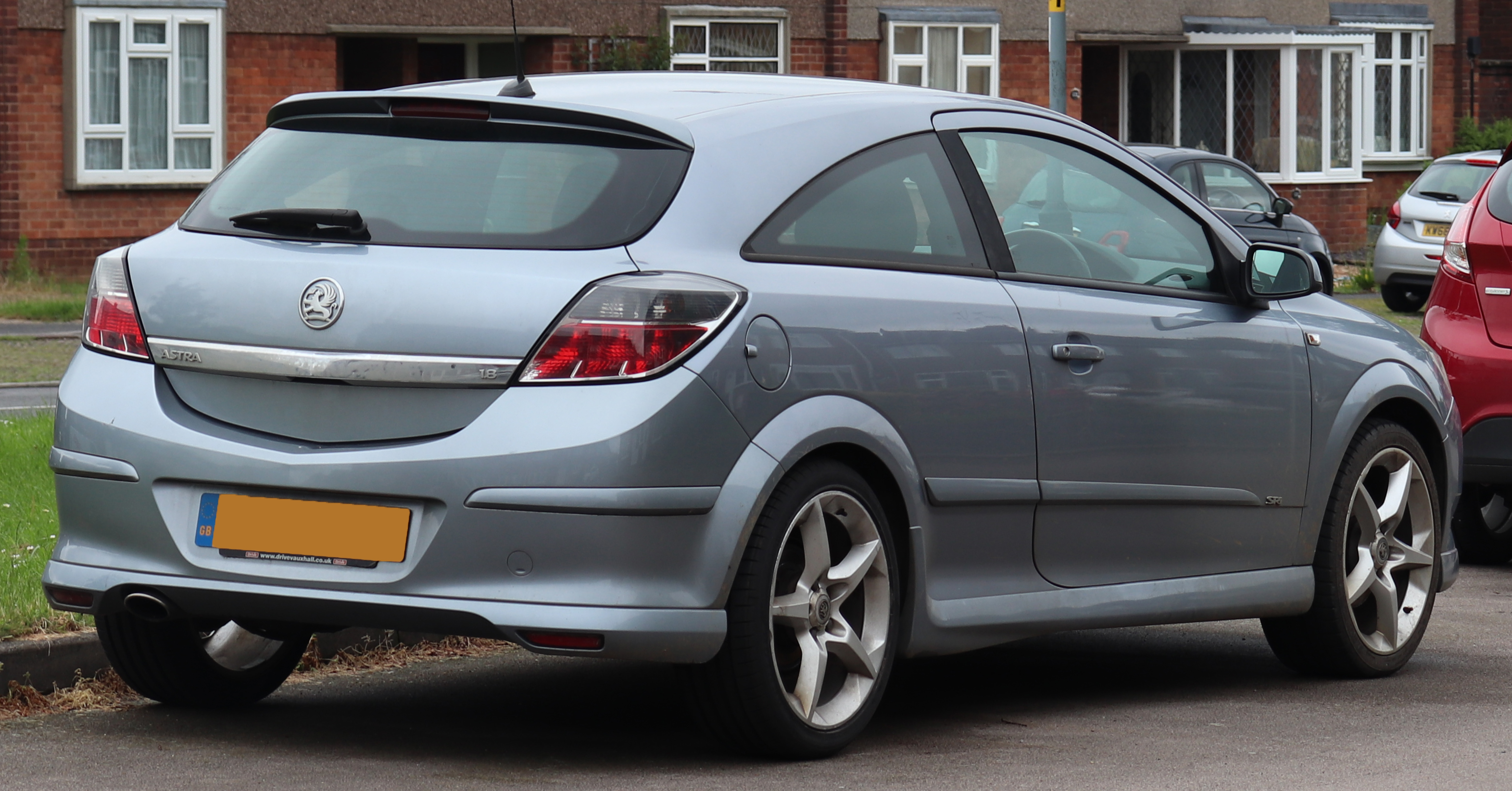 2007 Vauxhall Astra SRi+ 1.8 Taken in Warwick